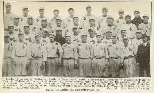 The 1914 St. Louis Browns. Gus Williams is labeled as "21".